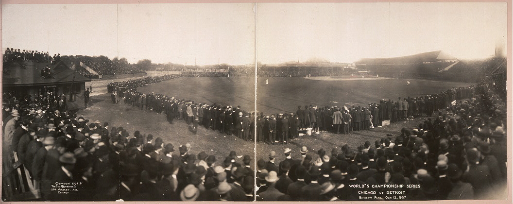 06:01, 2 December 2005 . . Albemarle . . 1056×420 (132,458 bytes) (